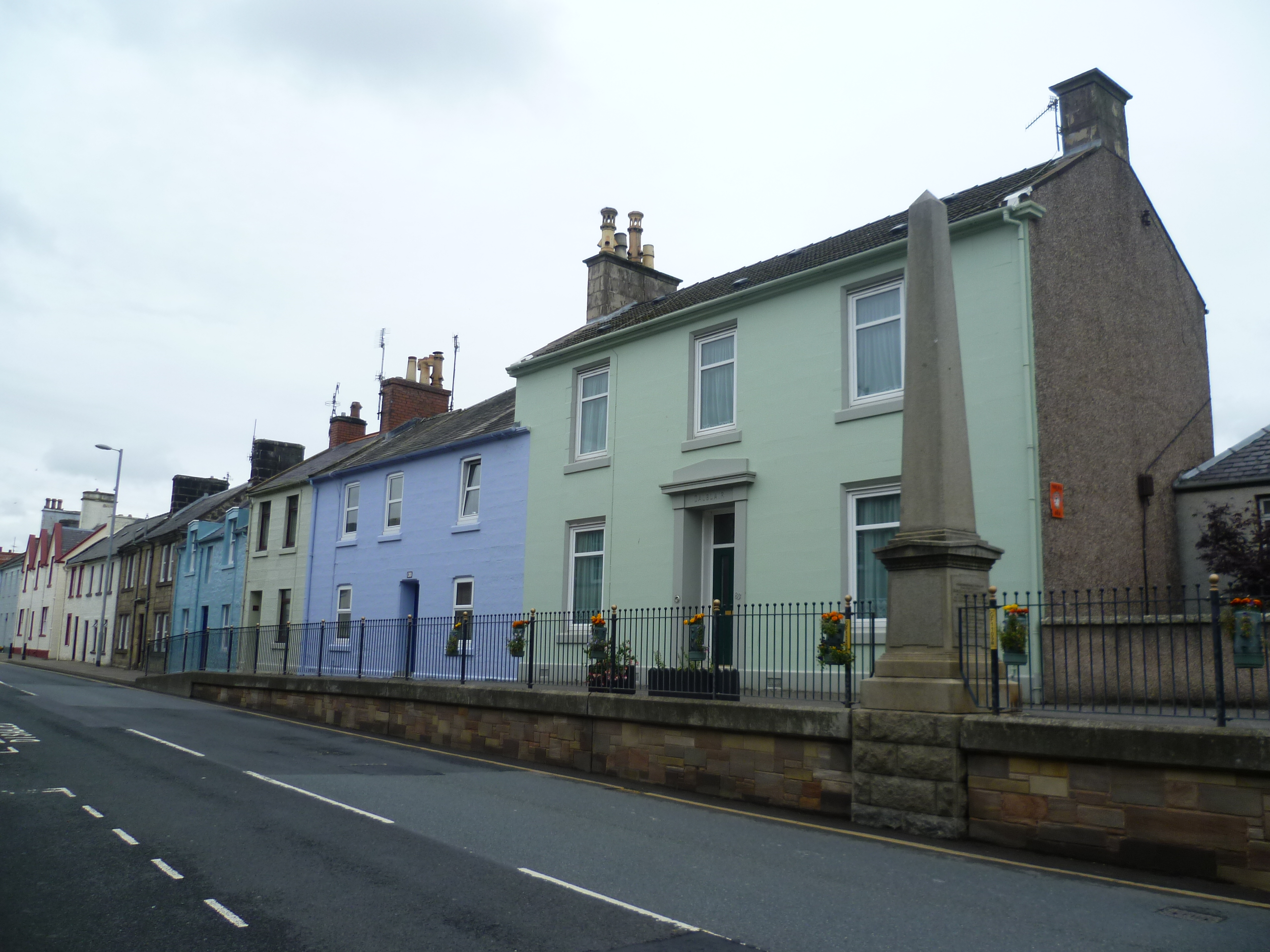 Monument erected in memory of the two Sanquar Declarations by the Rev. Richard Cameron (22 June 1680) and the Rev. James Renwick (25 May 1685)